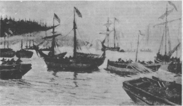 American Colonial Navy galley Congress with sloop-of-war Enterprise at the Battle of Valcour Island on Lake Champlain, New York, 11-13 October 1776